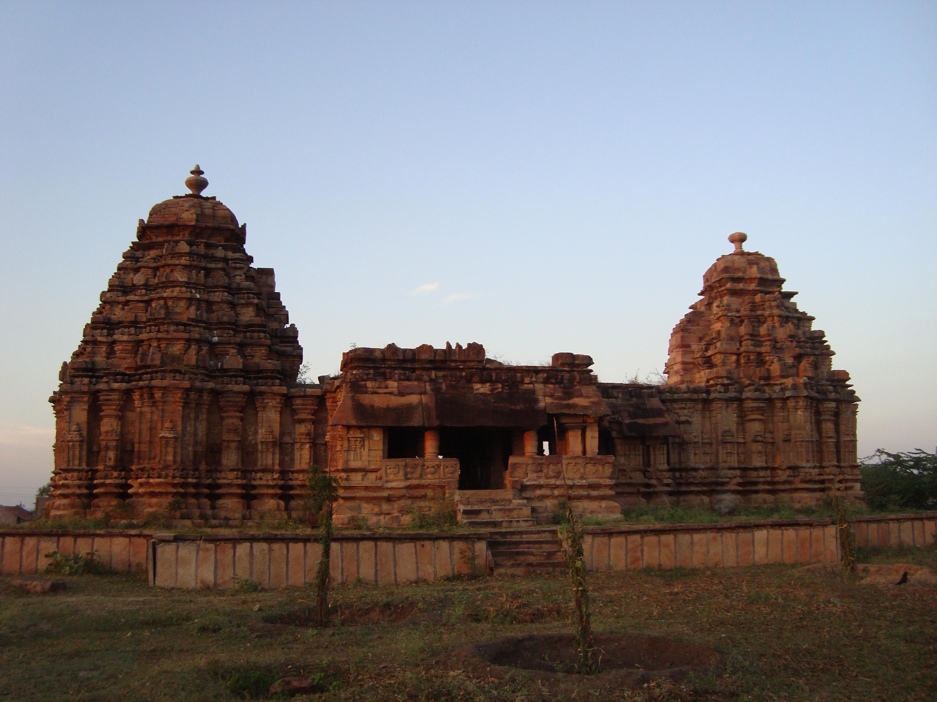 Jodugopura temple Sudi. Hubli, Karnataka(North), India